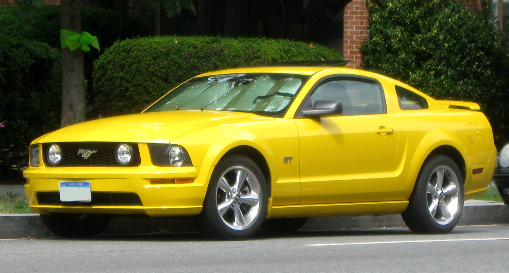 2005-2009 Ford Mustang GT coupe photographed in Washington, D.C., USA.